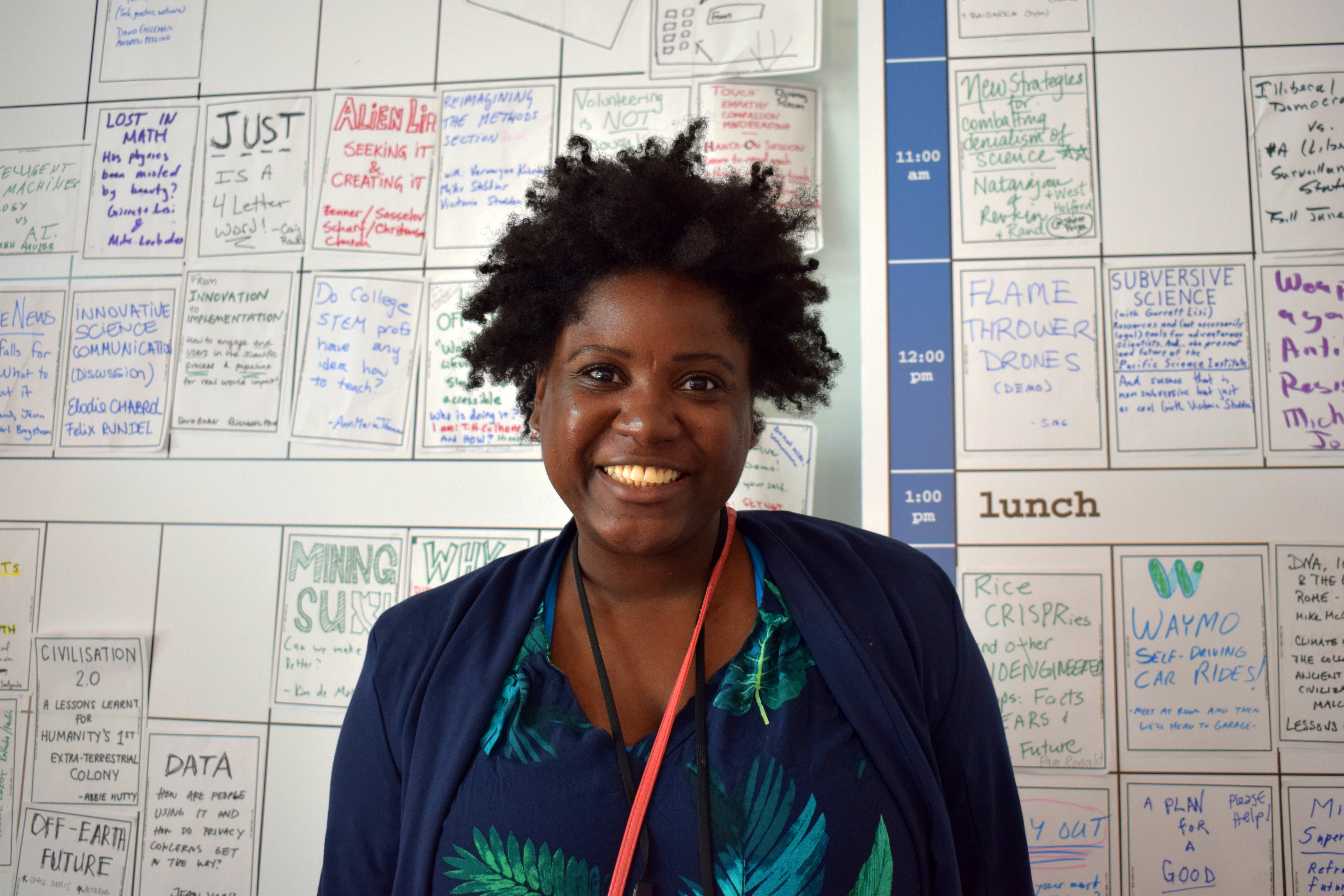 This photo was taken at Sci Foo 2018, where Liz Wayne was an invited contributor.